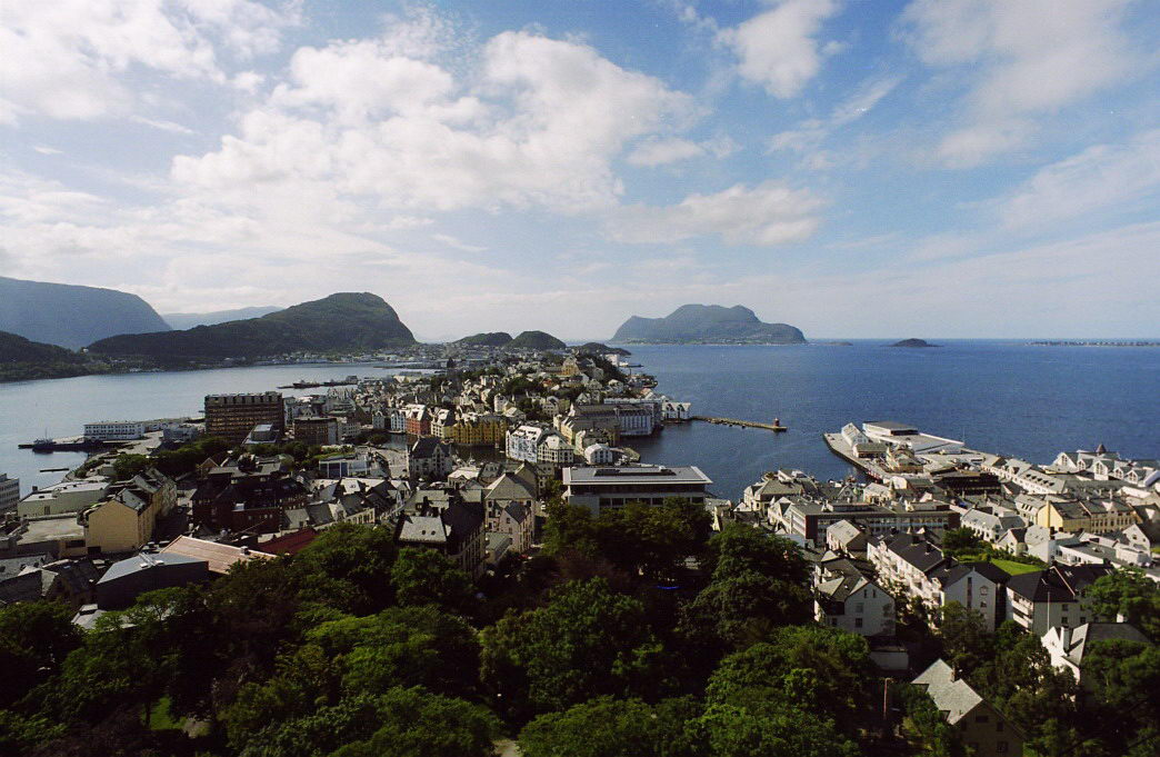 Ålesund from Aksla hill